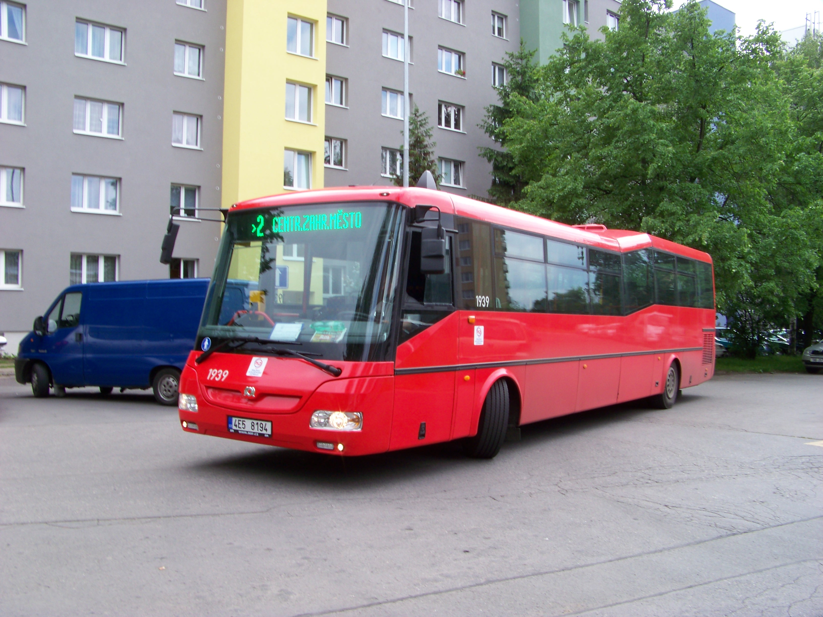 Prague-Záběhlice-Zahradní Město, the Czech Republic. A bus SOR BN 12 operated by About Me company.